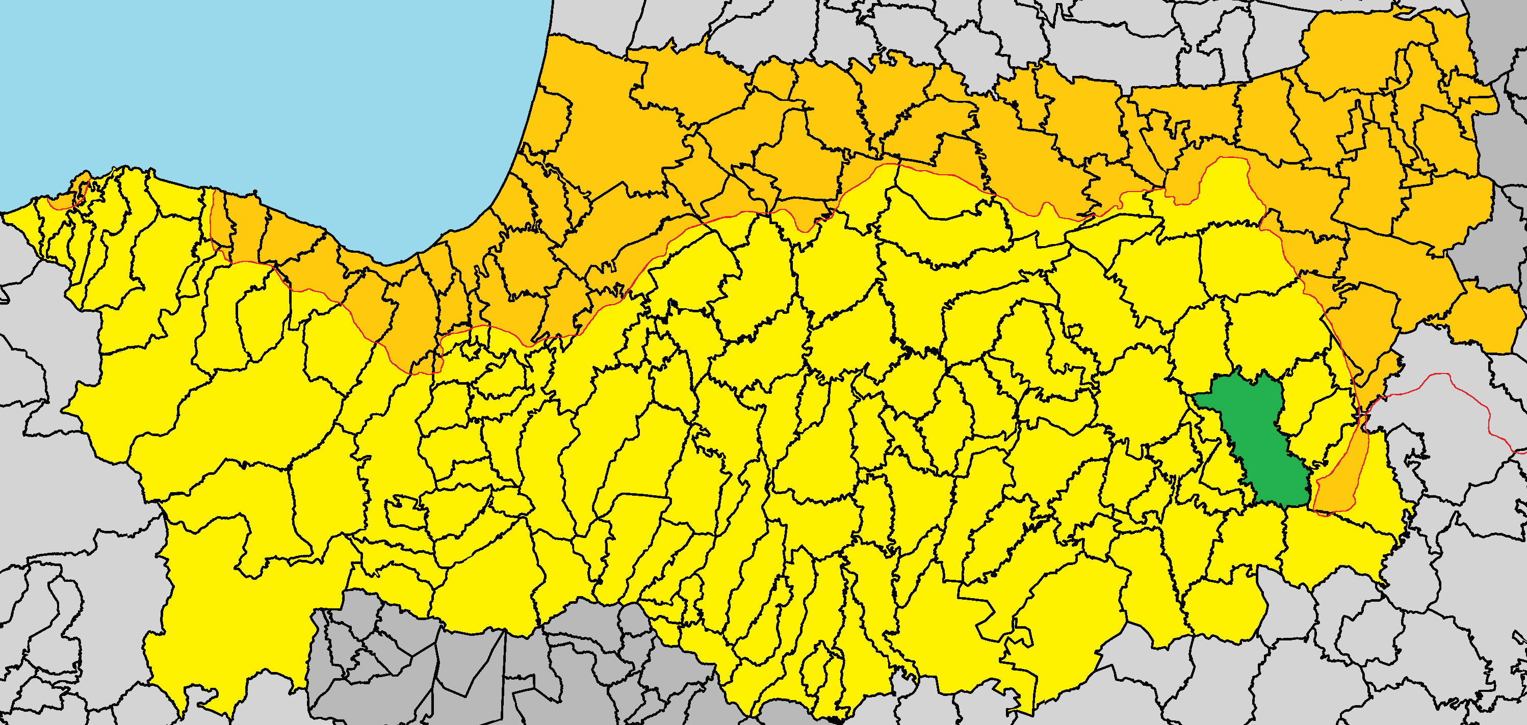 Dali, Cyprus in Nicosia District.